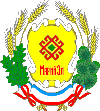 Coat of Arms of Mari El, made by DmitriĬ Ivanov (webmaster, Mariy-El gov site), 15 Aug 2001